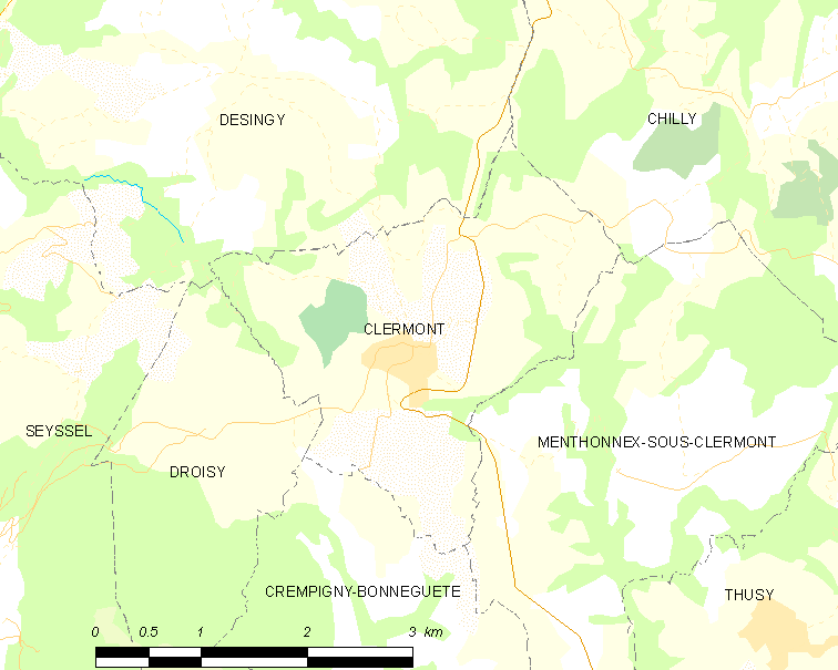 Map of French municipality Clermont